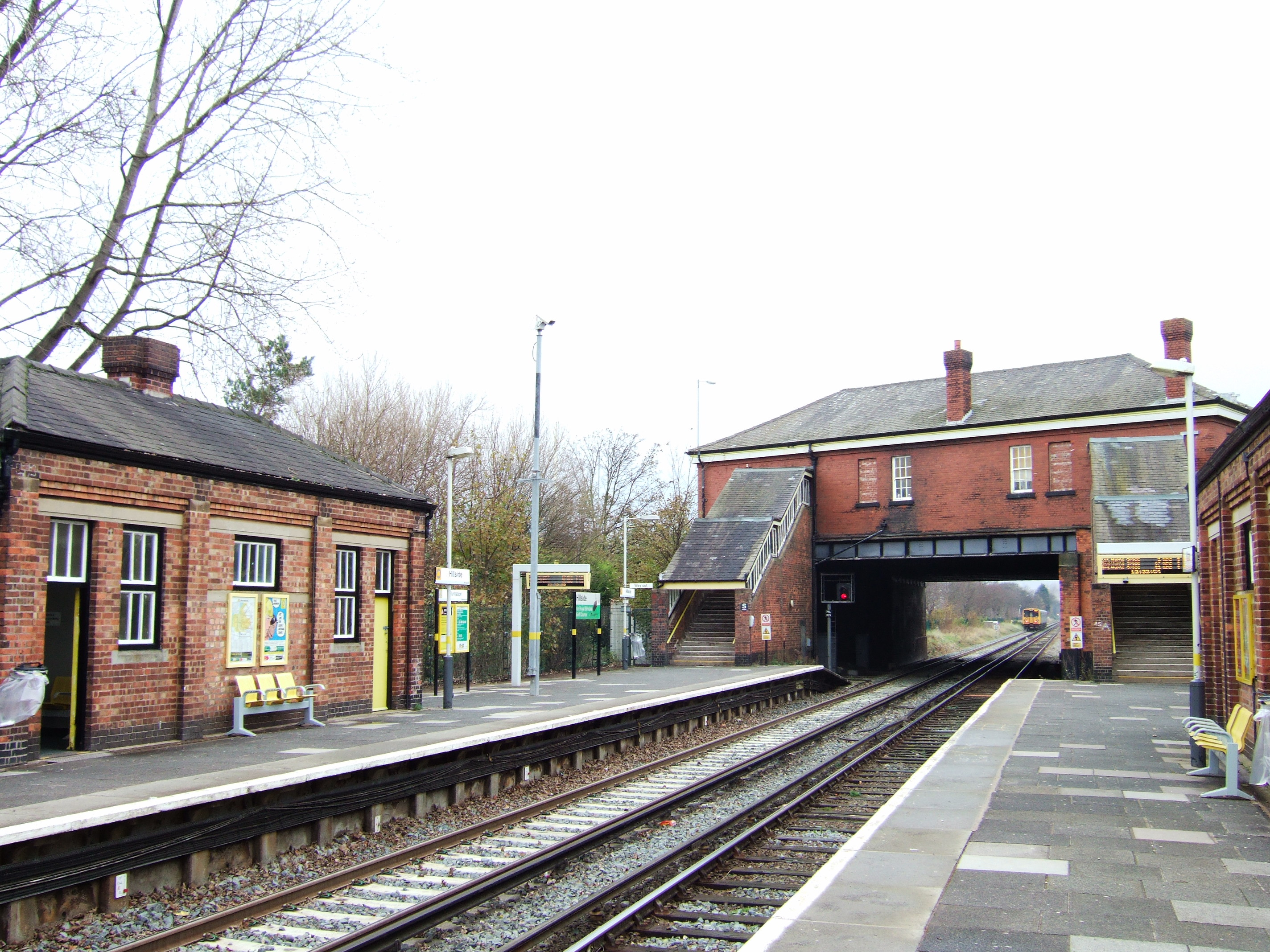 Hillside railway station, in Birkdale, Merseyside, England.